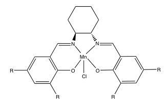 R = alkyl, O-alkyl, O-trialkyl Jacobsen's Catalysts (1990). "Enantioselective Epoxidation of Unfunctionalized Olefins Catalyzed by Salen Manganese Complexes". J. Am. Chem. Soc. 112 (7): 2801–2803.